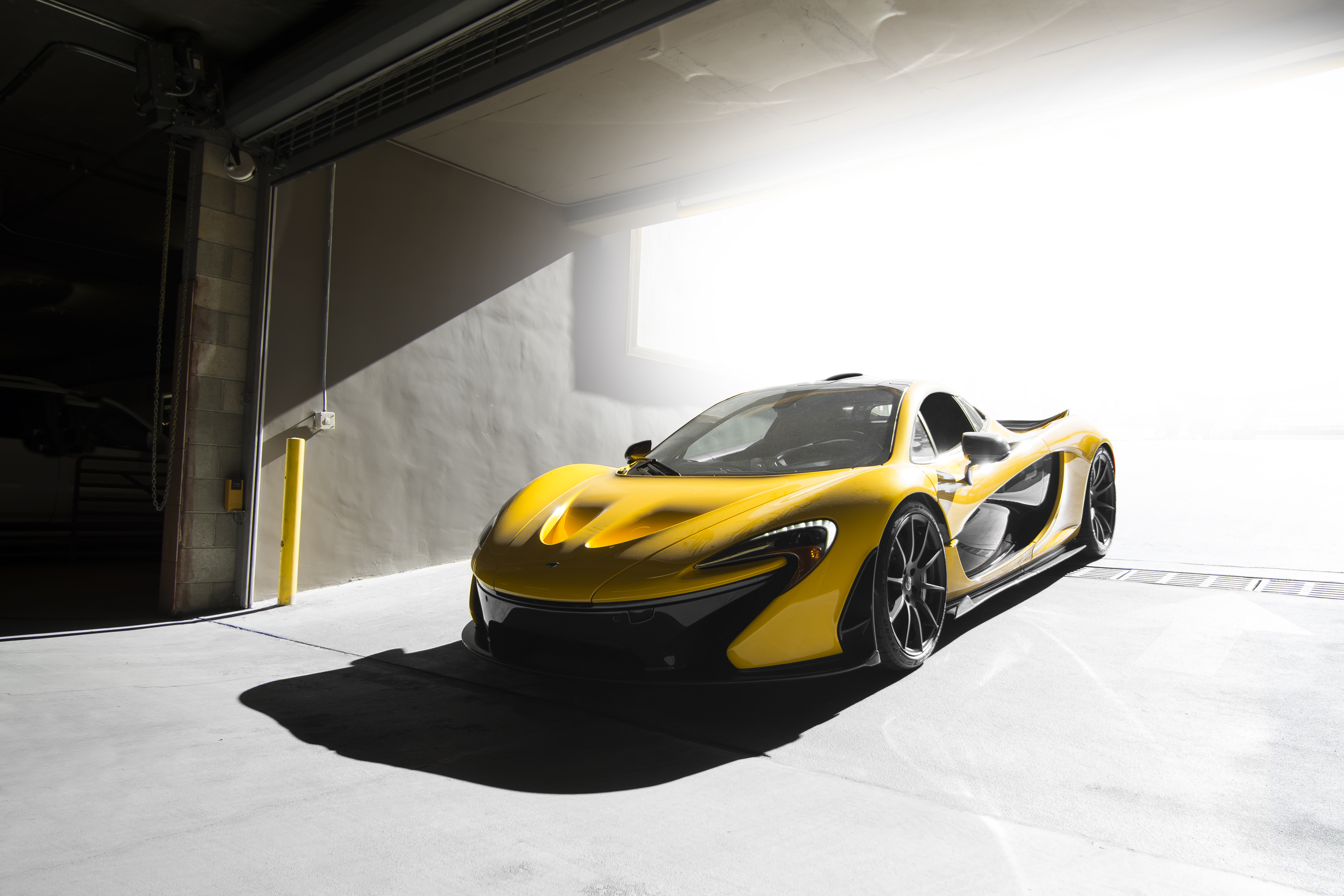 McLaren P1